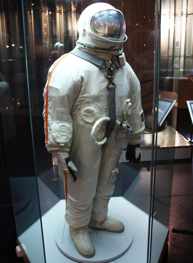 The Diving Bell "Berkut" soft design with a removable hard helmet and ventilation system of open type. It was intended to ensure access to space and to save the crew of the space ship "Voskhod-2" in the case of an emergency depressurization of the cabin. Suits" Berkut "used by the crew of Voskhod-2" PI Suits "Berkut" used by the crew the ship "Voskhod-2" PI Belyaev and AA Belyaev and AA Leonov in March 1965, the spacesuit weight - 20 kg. Leonov in March 1965, spacesuit weight - 20 kg. knapsack weight - 21,5 kg . Weight knapsack - 21,5 kg. Developed at the "Star" in 1964-1965. Developed at the Zvezda in 1964-1965. Image taken at the Memorial Museum of Astronautics in Moscow, Russia.